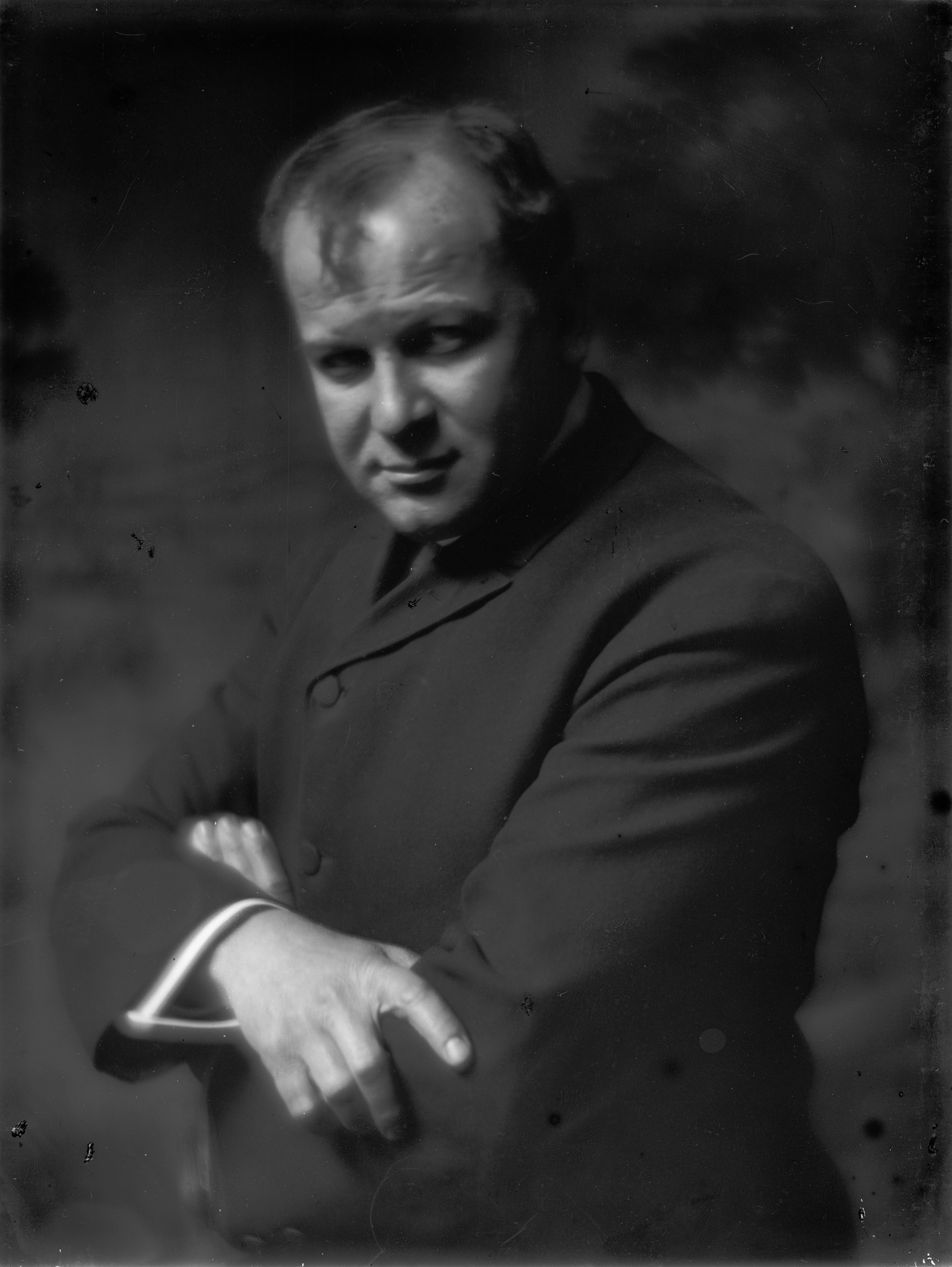 George Benjamin Luks (American painter, 1867-1933), half-length portrait, facing front.